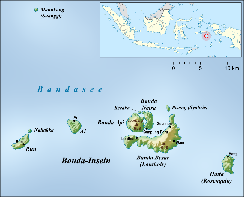 Map of Banda Islands